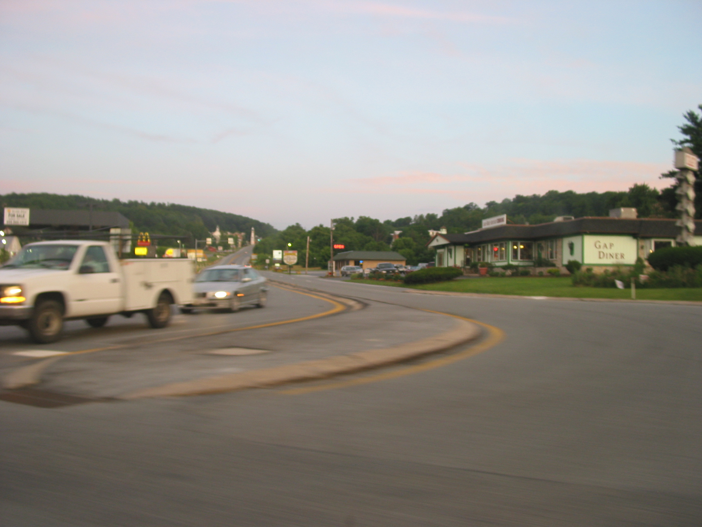 Northern terminus of PA 41 near Gap.